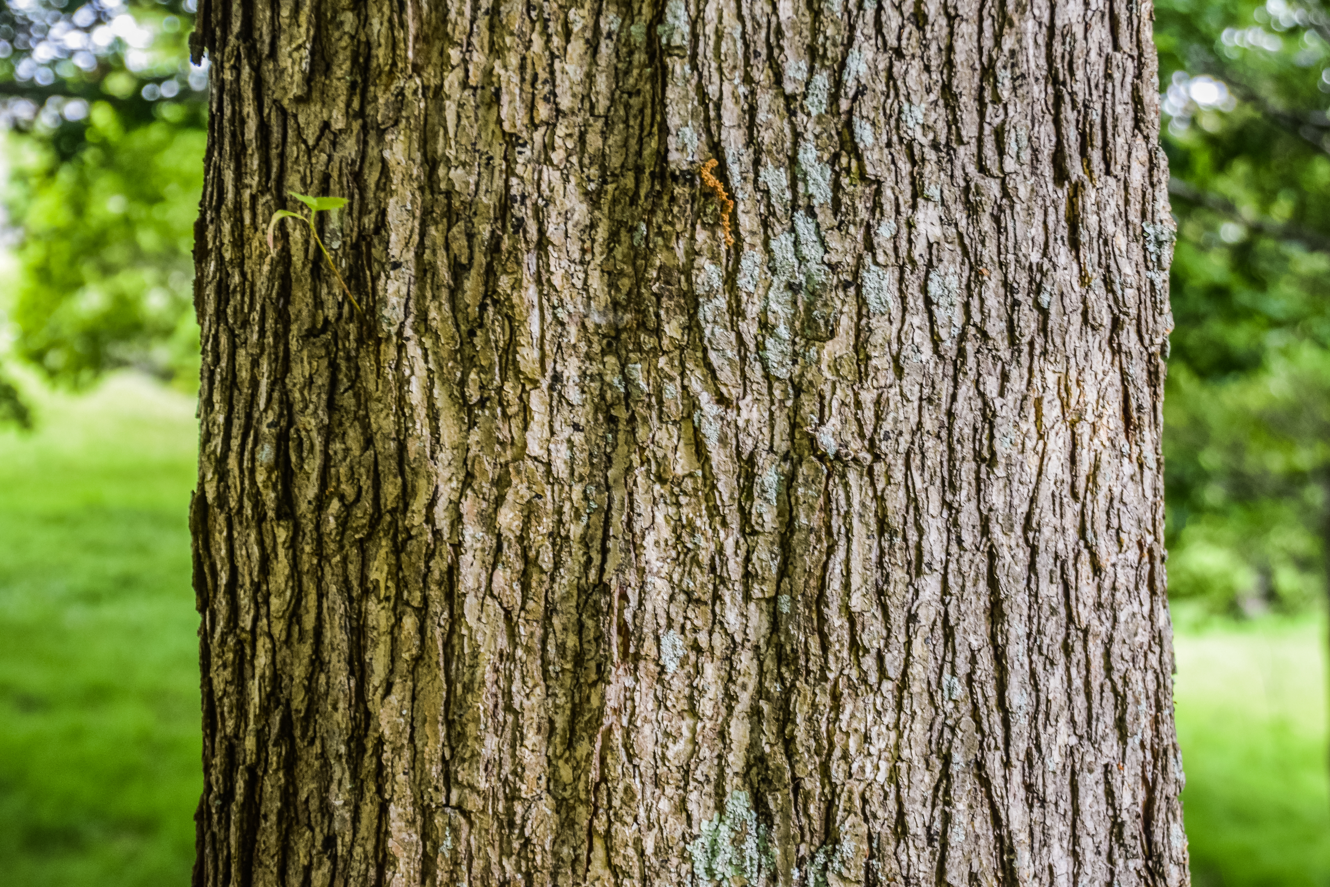 Bark of Quercus muehlenbergii in Hackfalls Arboretum, Gisborne Region, New Zealand